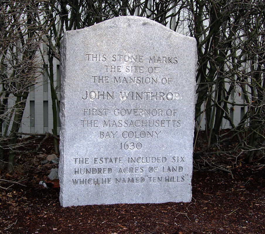 Photograph of Historic Marker of the home of John Winthrop in Ten Hills, Somerville, Massachusetts